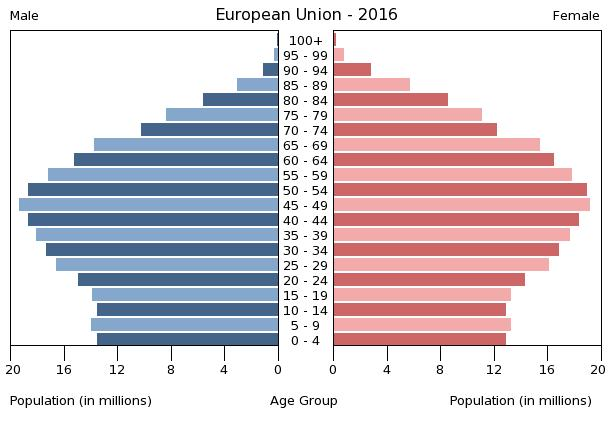 The population pyramid of the European Union illustrates the age and sex structure of population and may provide insights about political and social stability, as well as economic development. The population is distributed along the horizontal axis, with males shown on the left and females on the right. The male and female populations are broken down into 5-year age groups represented as horizontal bars along the vertical axis, with the youngest age groups at the bottom and the oldest at the top. The shape of the population pyramid gradually evolves over time based on fertility, mortality, and international migration trends.